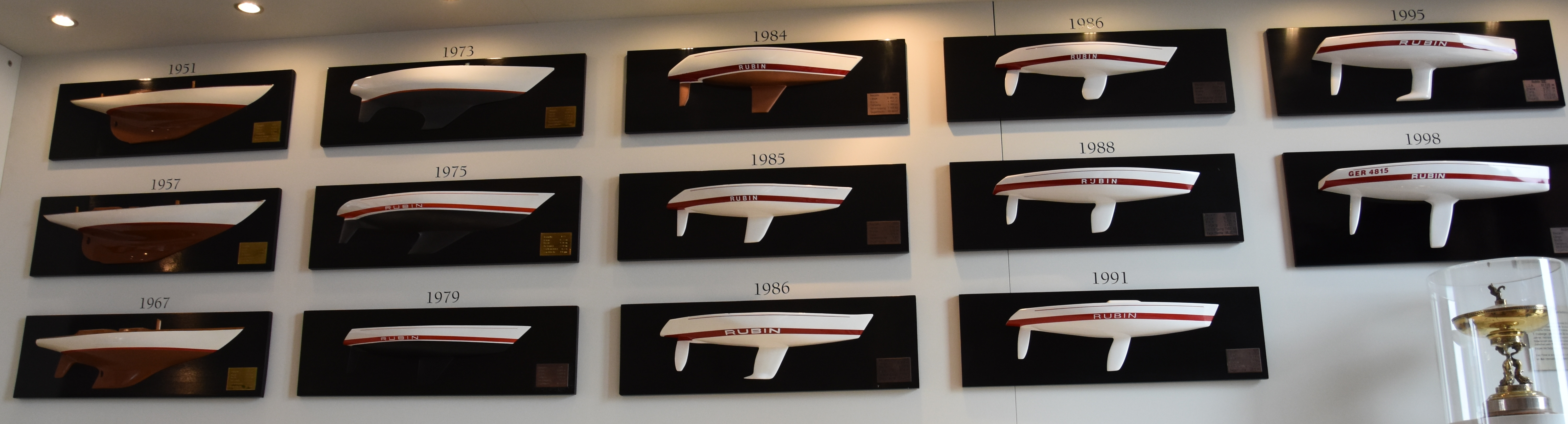 Development of the shape of ship shapes and keels from the various yachts of german sailor Hans-Otto Schümann, all named "Rubin"